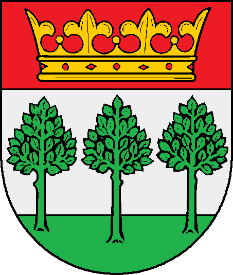 granted 30 August 1976.